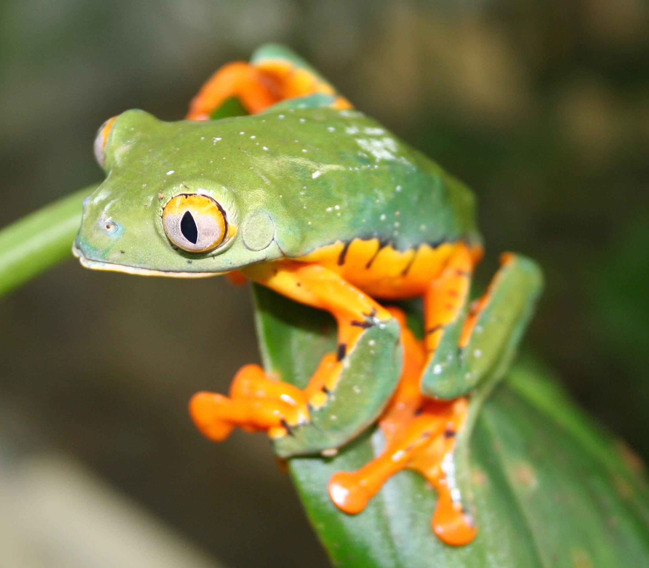 Cruziohyla calcarifer (male) from Esmeraldas Province, North west Ecuador